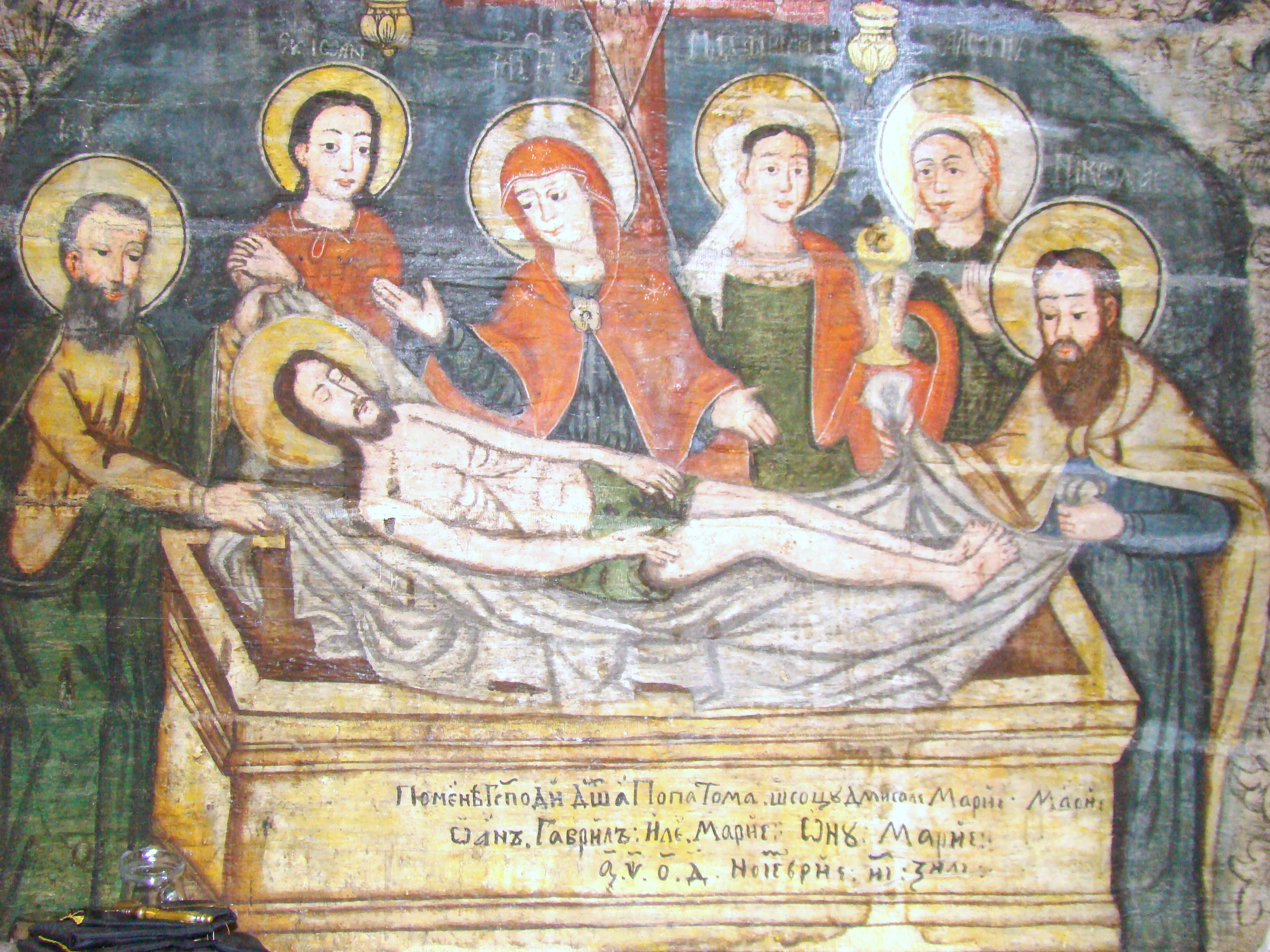 Wooden church in Bica, Cluj countyRomână: Biserica de lemn din Bica, județul Cluj